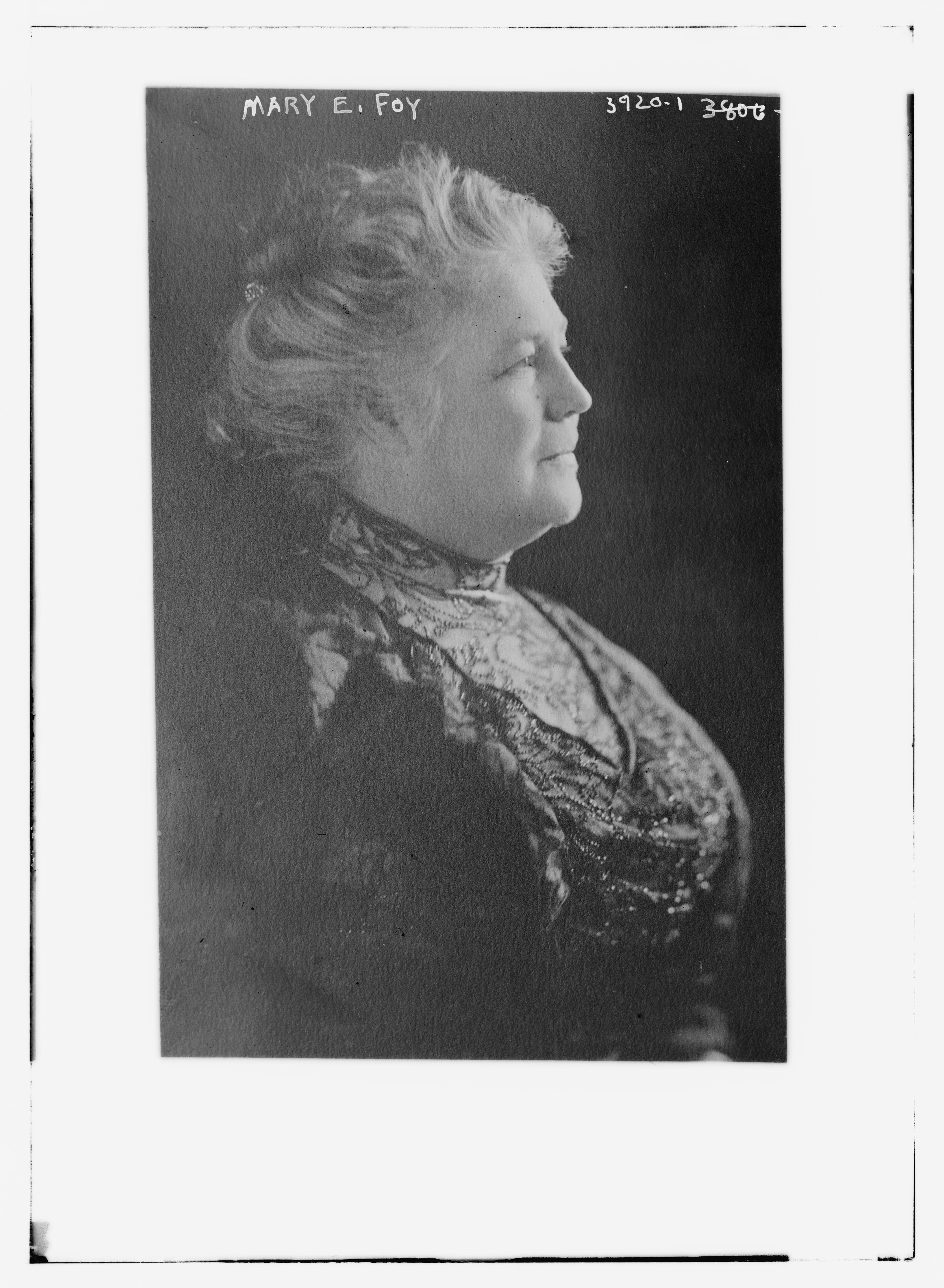 Title: Mary E. Foy Abstract/medium: 1 negative : glass ; 5 x 7 in. or smaller.